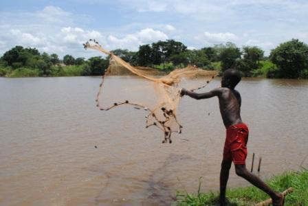 Local boy fishing at Lake Kazana in Maridi area - Equatoria region of South Sudan.